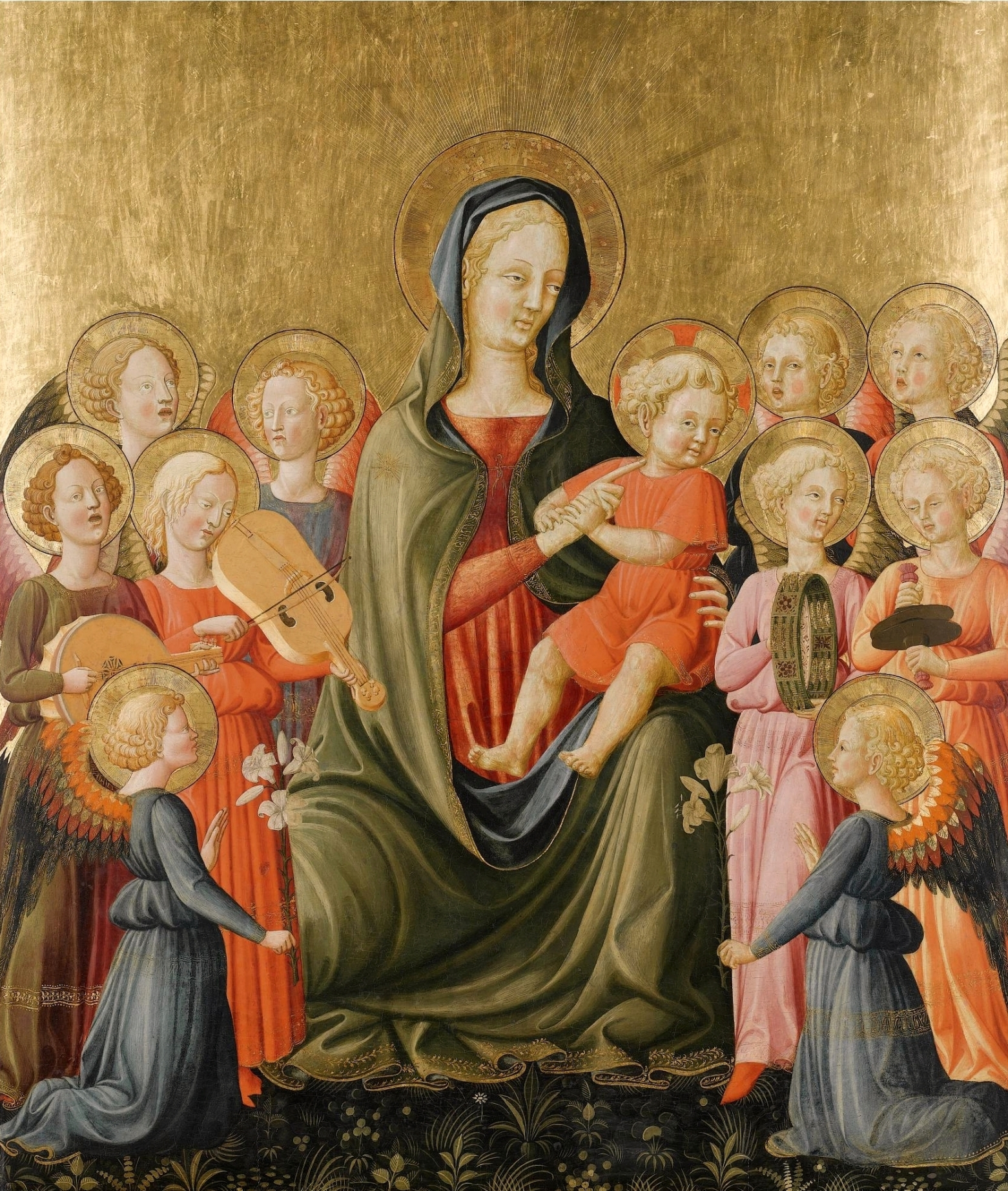 Lo Scheggia, Madonna with Child and Angels, 1420s, Sotheby's